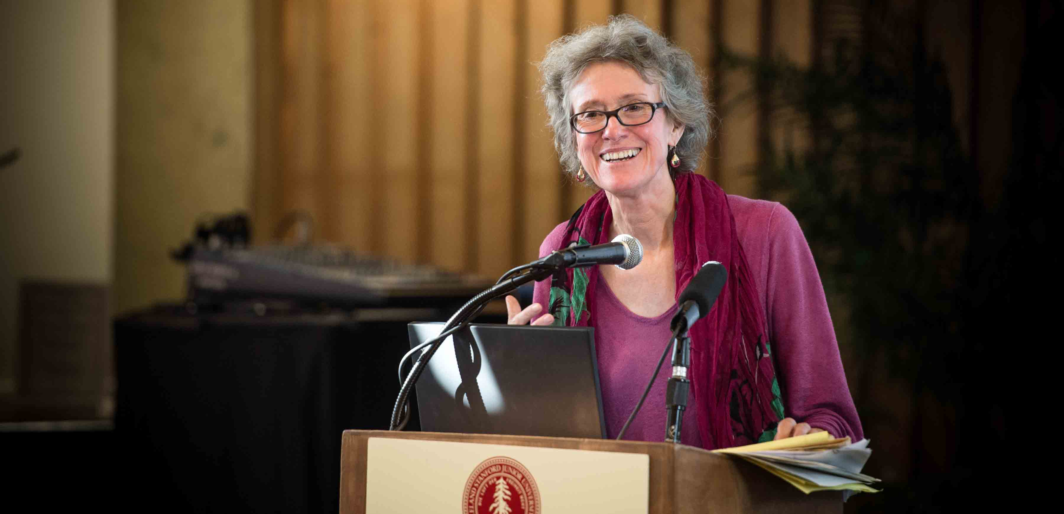 Arlie Russell Hochschild